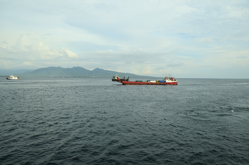 Boats over Bali Strait